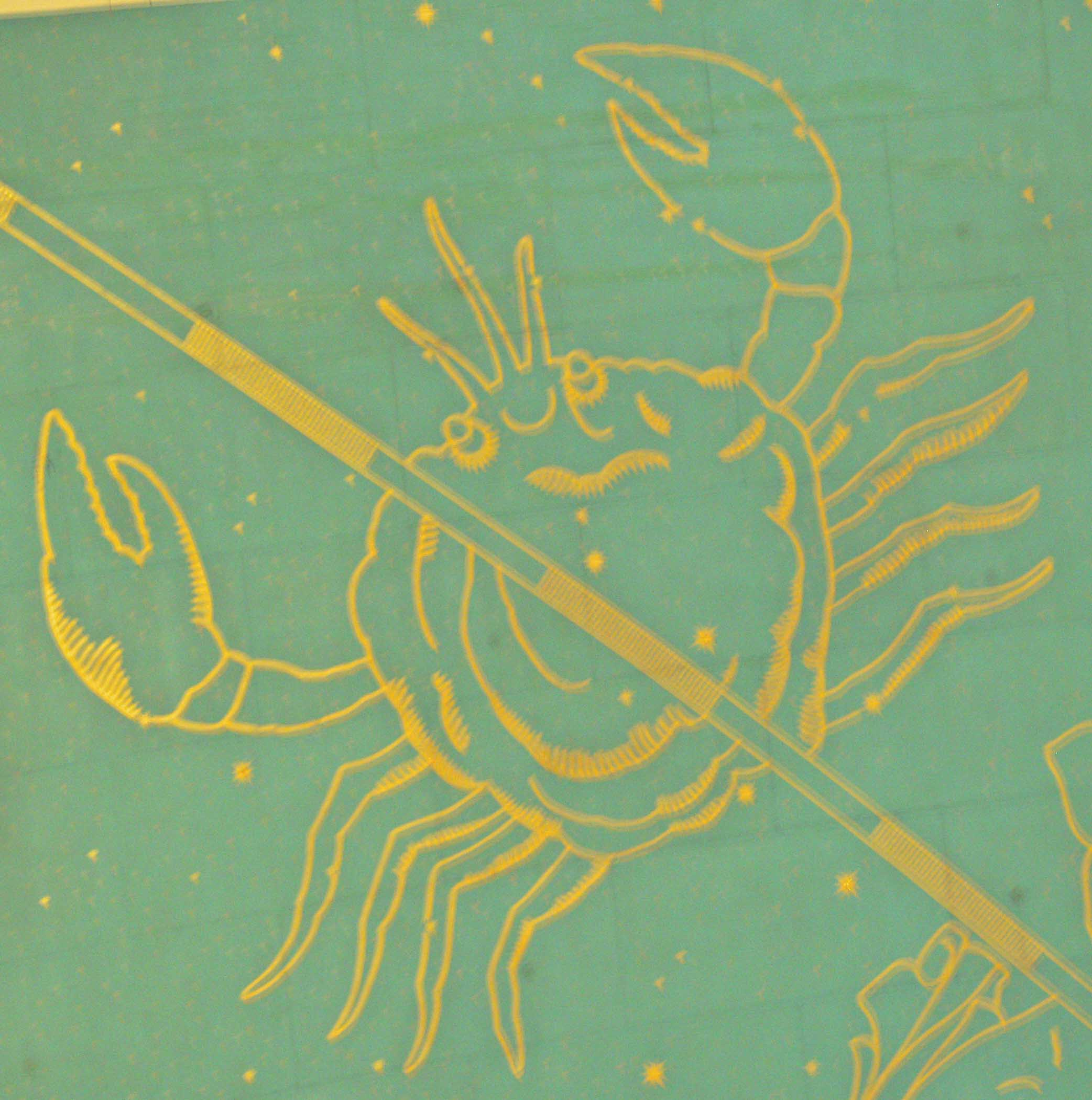 Cancer crab constellation and astrology sign on the ceiling of the Grand Central main concourse by David Shankbone